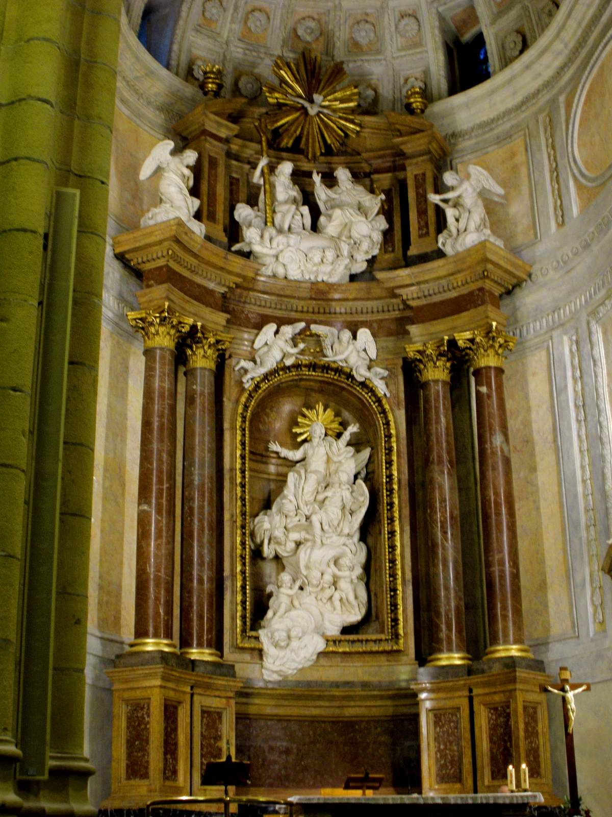 Retablo mayor de la iglesia de N. S. de la Asunción (Rentería)